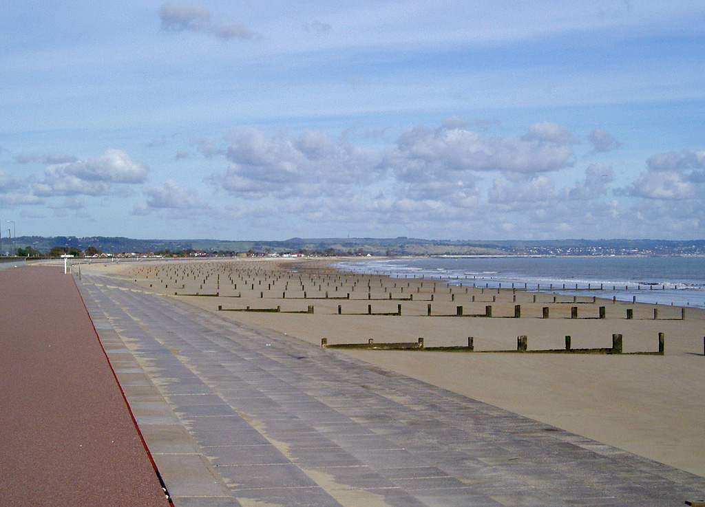 St Marys Bay, Kent - a view of the beach looking towards Dymchurch.